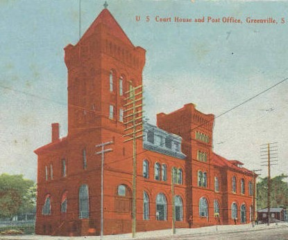 Post Office and City Hall (Greenville, South Carolina) - cropped Constructed in 1892 on the northwest corner of Main and Broad Streets, this building originally served as the post office. In 1938, it became Greenville's City Hall. It was demolished in 1972. This work is in the public domain in its country of origin and other countries and areas where the copyright term is the author's life plus 80 years or less. You must also include a United States public domain tag to indicate why this work is in the public domain in the United States. Note that a few countries have copyright terms longer than 80 years: Mexico has 100 years, Jamaica has 95 years. This image may not be in the public domain in these countries, which moreover do not implement the rule of the shorter term. Côte d'Ivoire has a general copyright term of 99 years, but it does implement the rule of the shorter term. This file has been identified as being free of known restrictions under copyright law, including all related and neighboring rights.